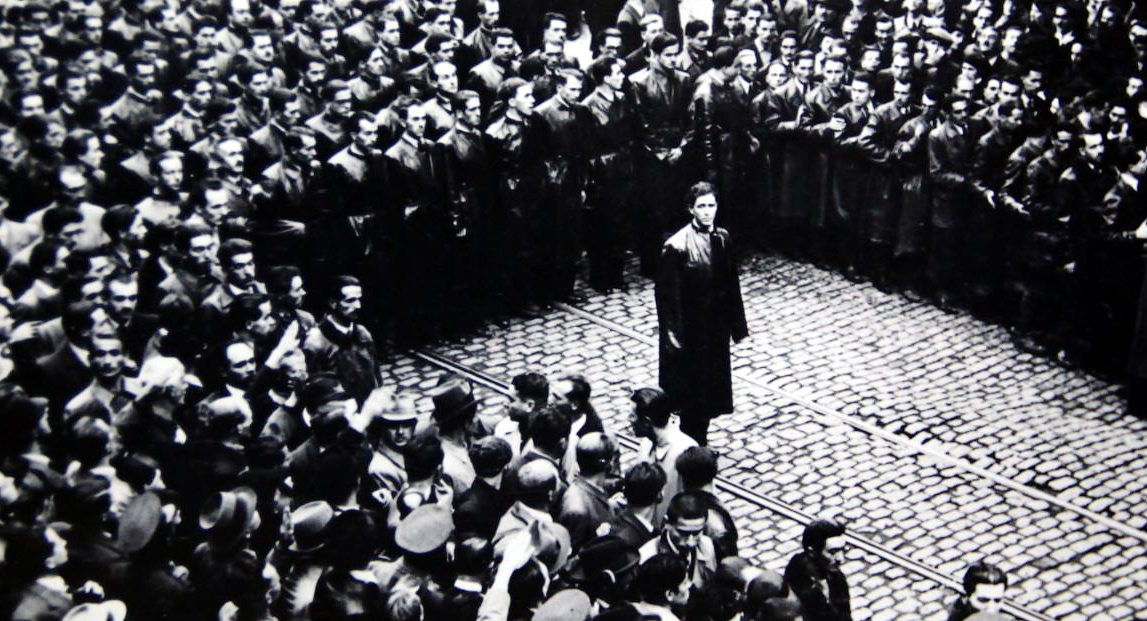 Leader Corneliu Zelea Codreanu and the Legionary Movement (also known as the Iron Guard) in Bucharest, Romania.